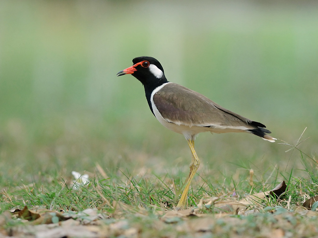 Taken at Phutthamonthon, Thailand.